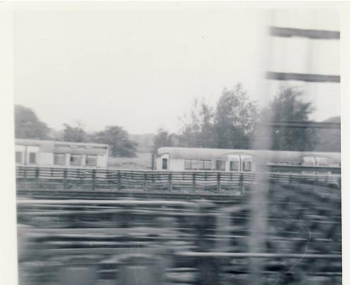 A London Underground 1935 Stock driving motor car and a 1927 trailer on the scrap line at Ruislip depot. The picture was taken from a Piccadilly Line train on 19 August 1971, and both cars were scrapped on 10 October